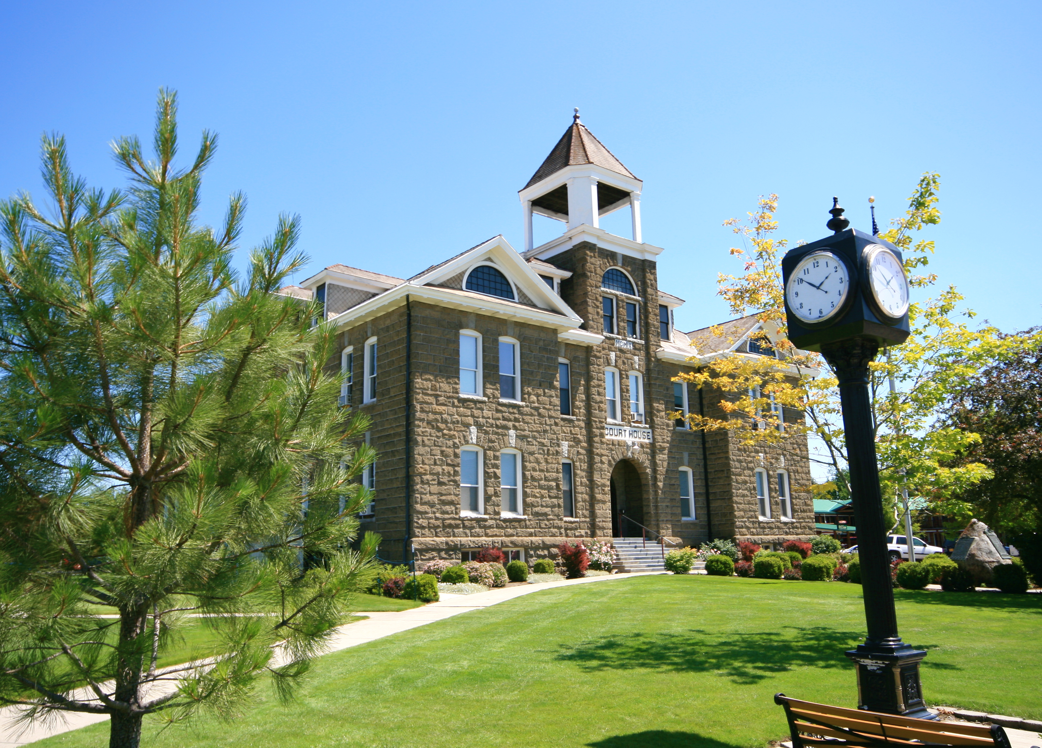 English